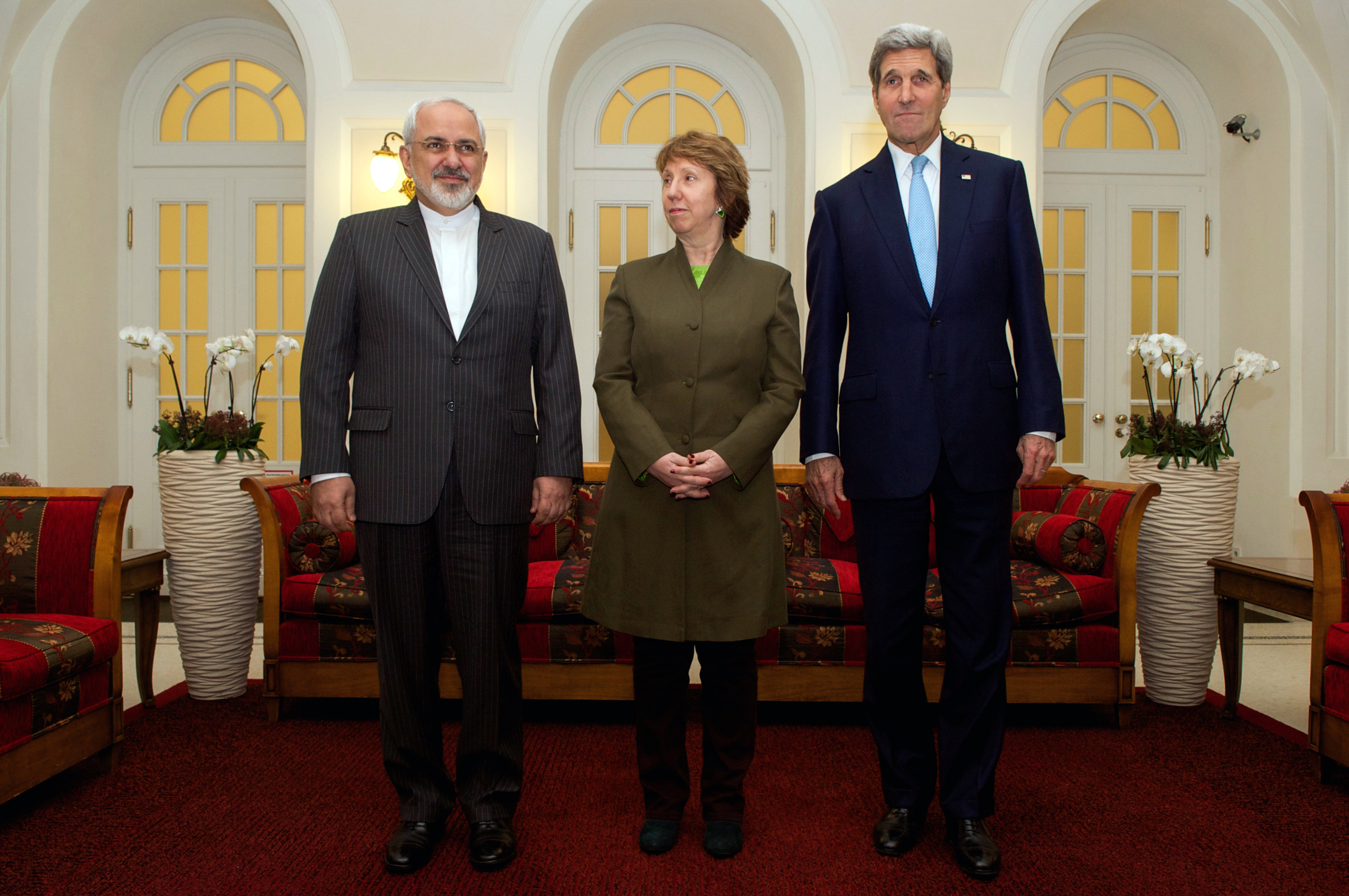 U.S. Secretary of State John Kerry, Catherine Ashton of the European Union and Foreign Affairs Minister Mohammad Javad Zarif of Iran stand before beginning tripartite negotiation in Vienna about future of Iran's nuclear program.